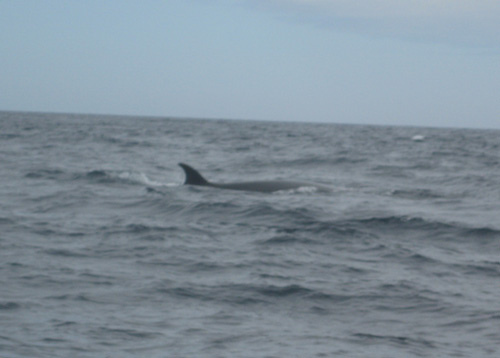 A sei whale (Balaenoptera borealis) showing distinctive "jointed" dorsal fin.